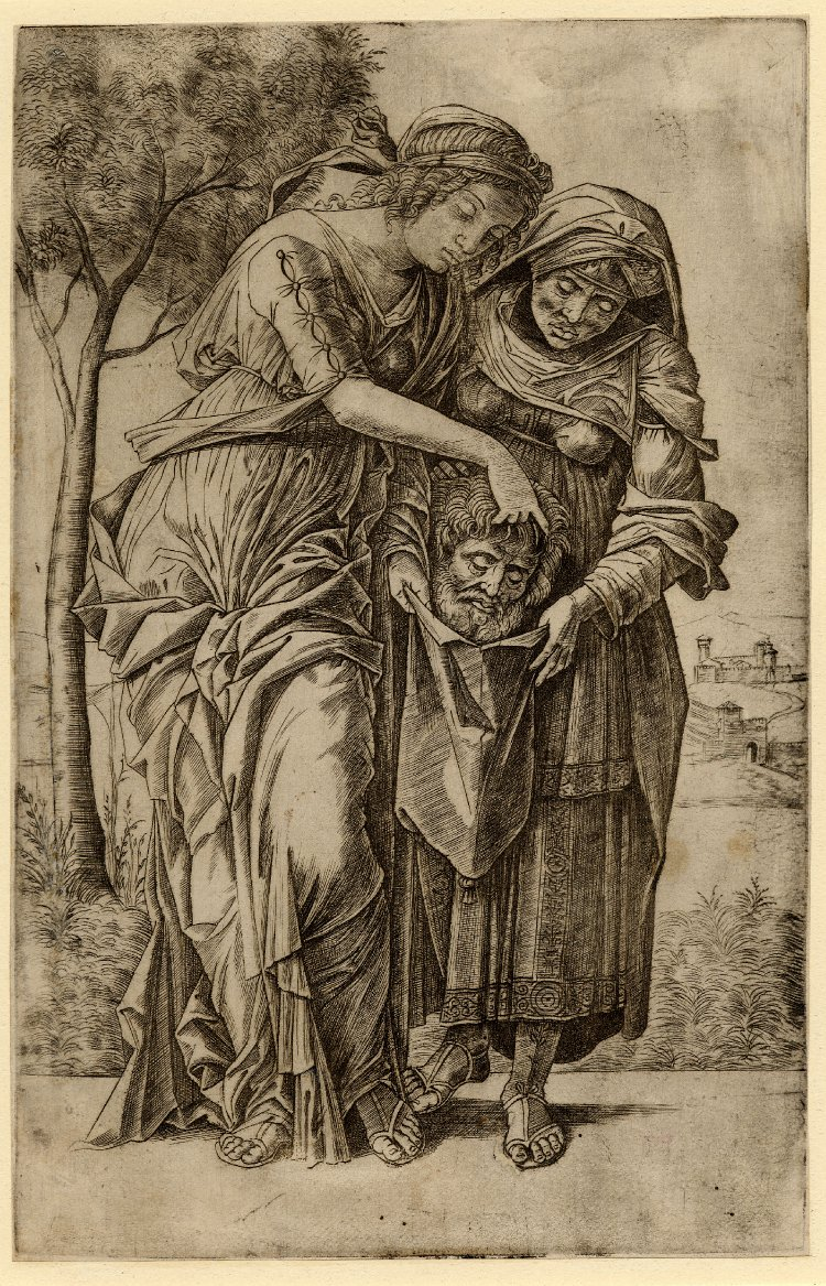 2nd state, with landscape background added.